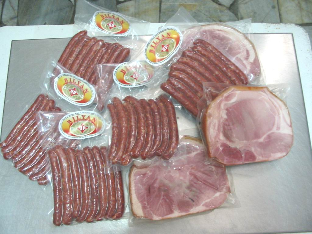 Bilyan sausage factory in Armenia.